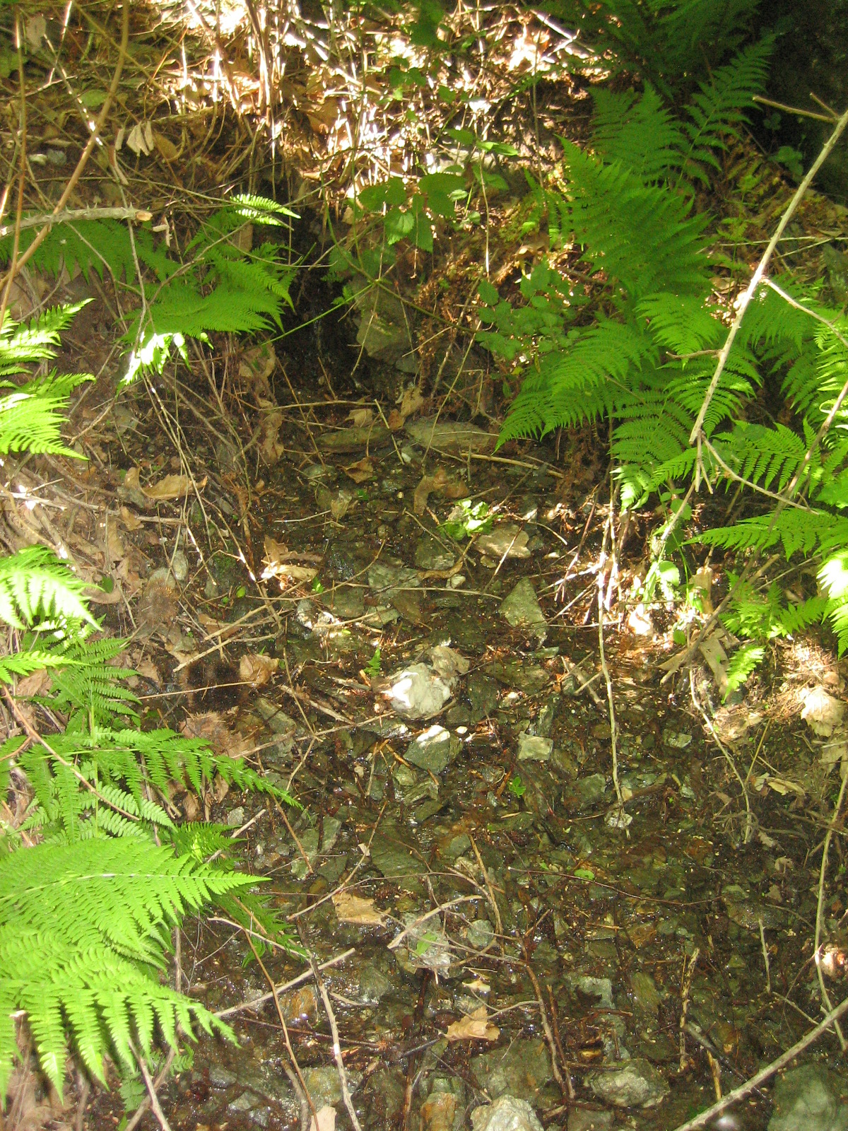 Source de la Cèze